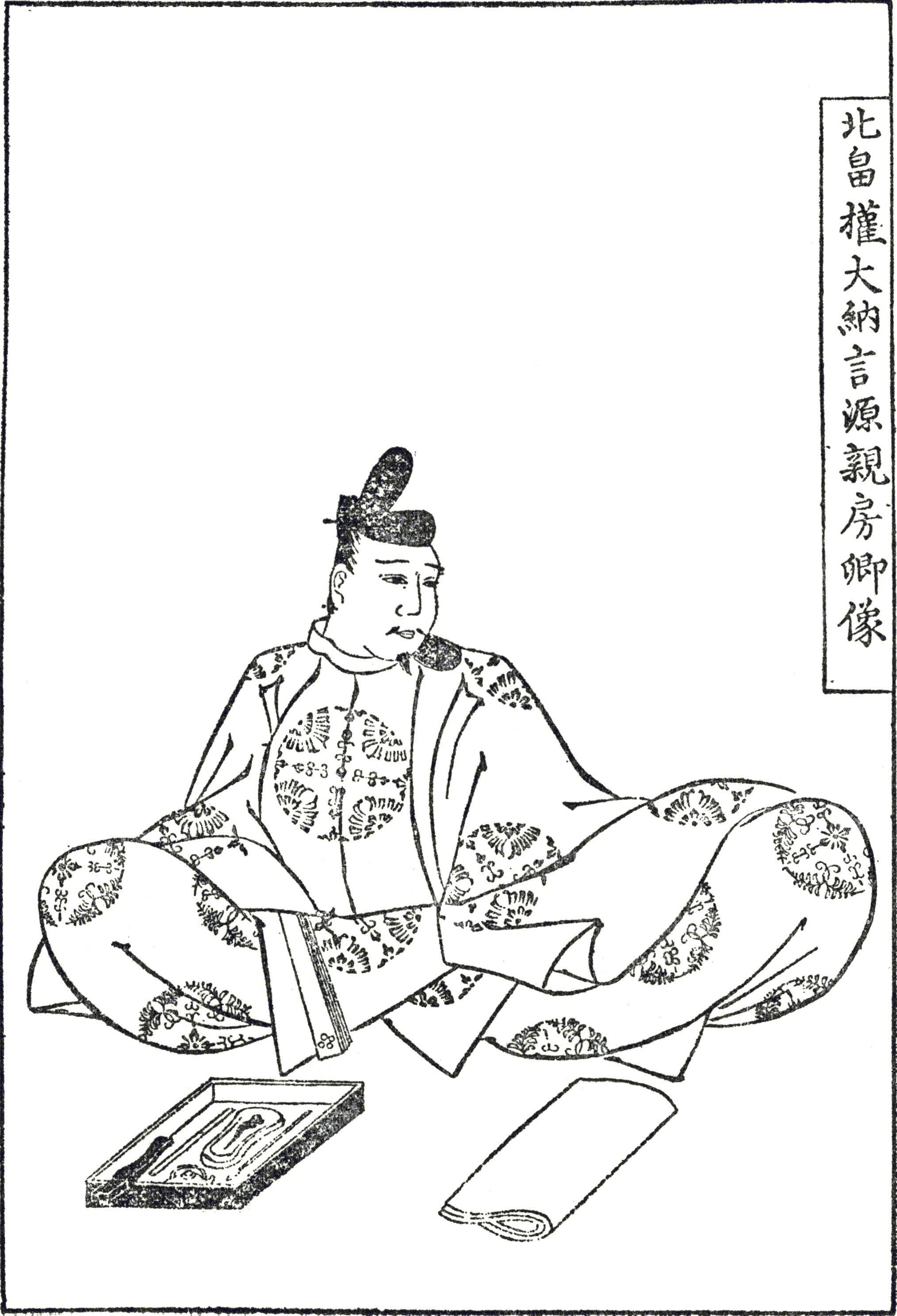 Portrait of Kitabatake Chikafusa